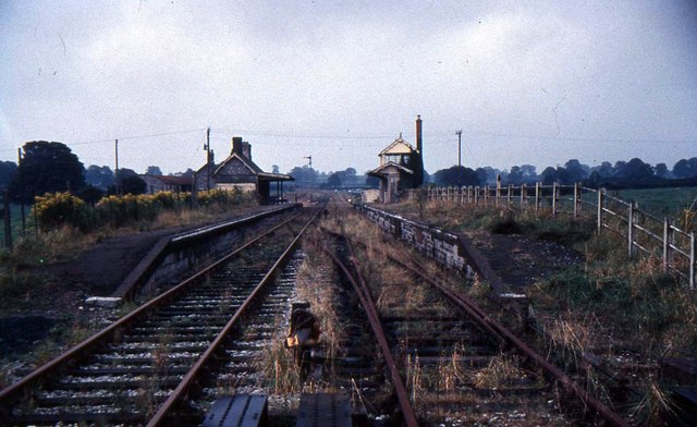 Binegar railway station. Picture shows the old station buildings, and tall signal box, and also the signals and track.